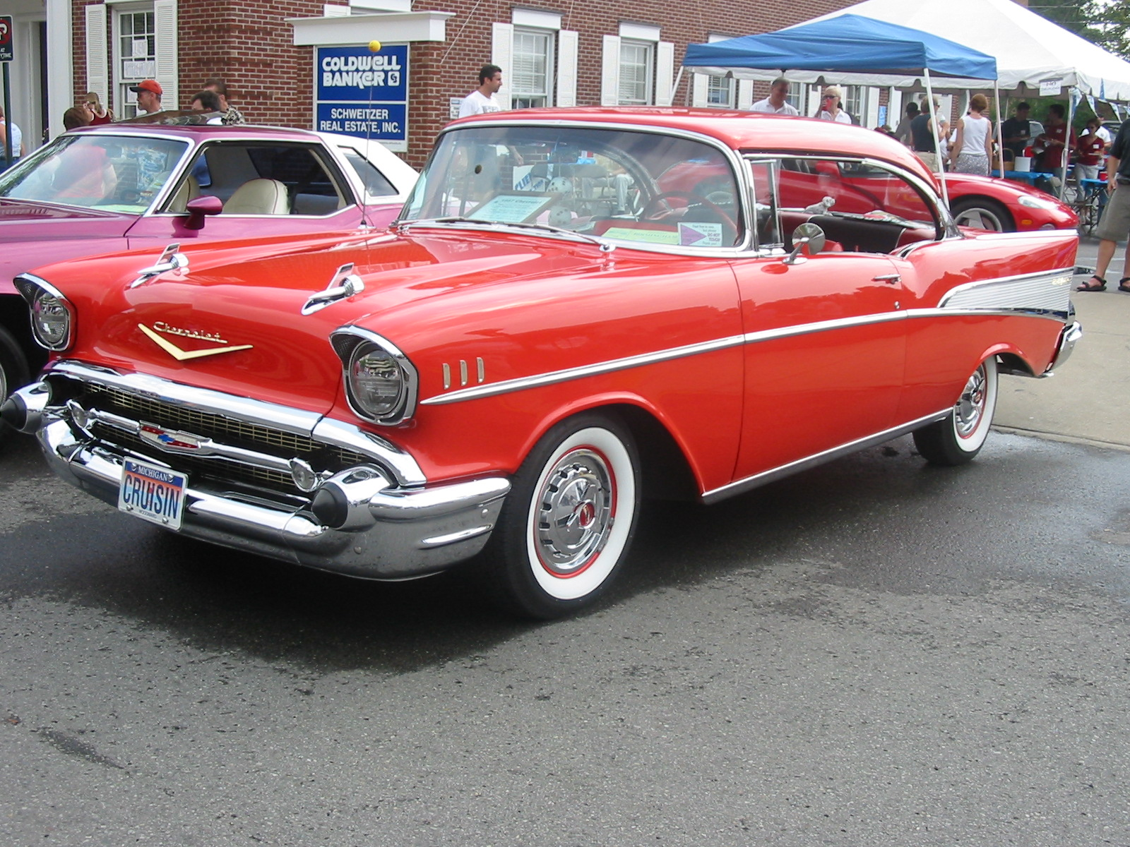 A 1957 Chevrolet Bel Air. The picture was taken at the Woodward Dream Cruise. Author is Daniel M.